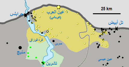 Controlled by the Syrian Arab Republic (SAA and allies) Controlled by the Syrian Salvation Government (HTS and allies) Controlled by the Syrian Interim Government (SNA and allies) Controlled by the Federation of Northern Syria (SDF) Controlled by the Islamic State of Iraq and the Levant (ISIL) Controlled by other factions of the Syrian Opposition Joint control between SAA & SDF The disputed frontline between the forces Observation post of the Turkish Armed Forces In the respective colours: Stable mixed control Rural presence Contested Strategic hill Oilfield/Gasfield Military base or checkpoint Airport/Air base (plane) Heliport/Helicopter base Major port or naval base Border post Dam Industrial complex